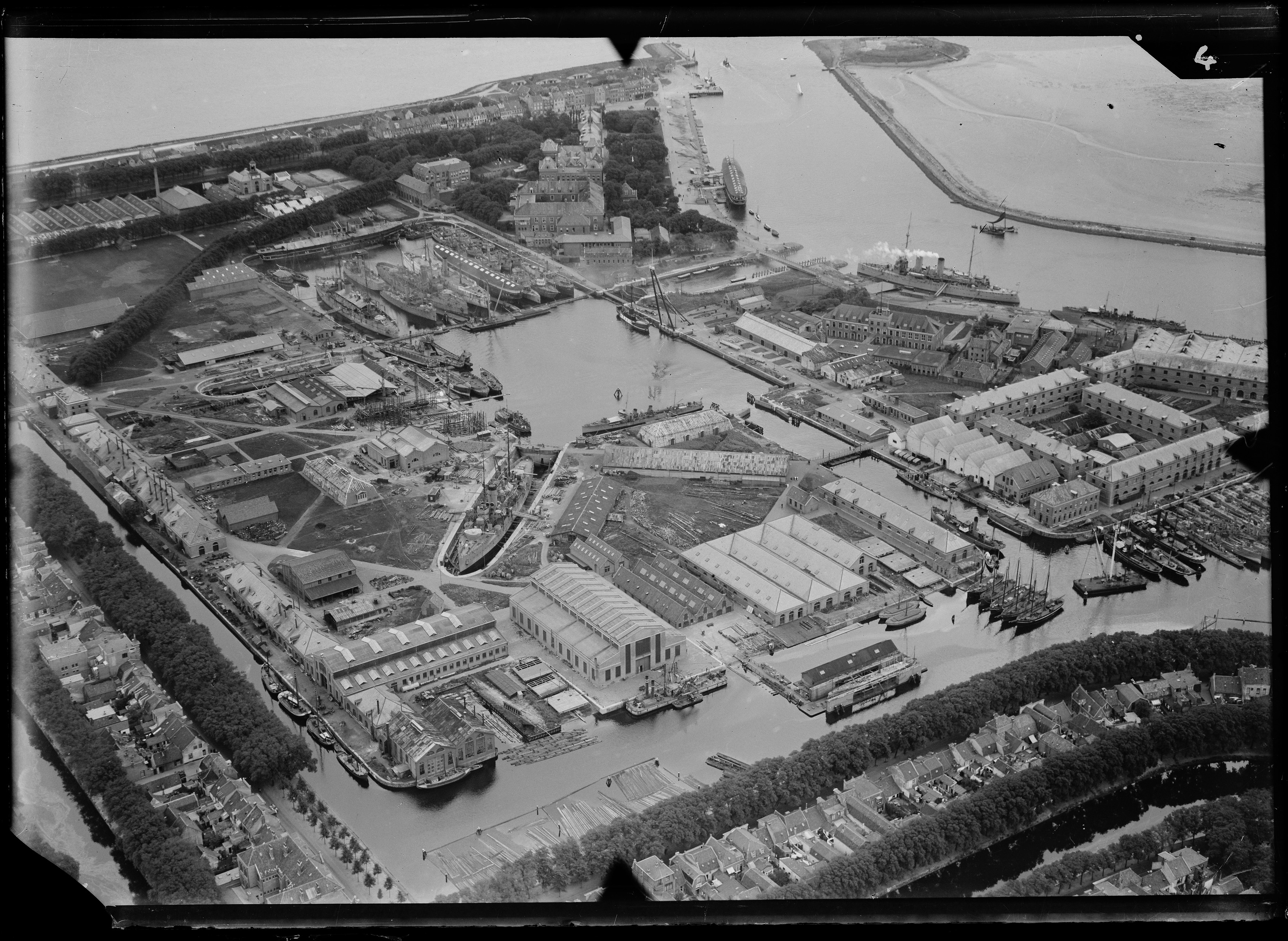 Aerial photograph of Den Helder, The Netherlands